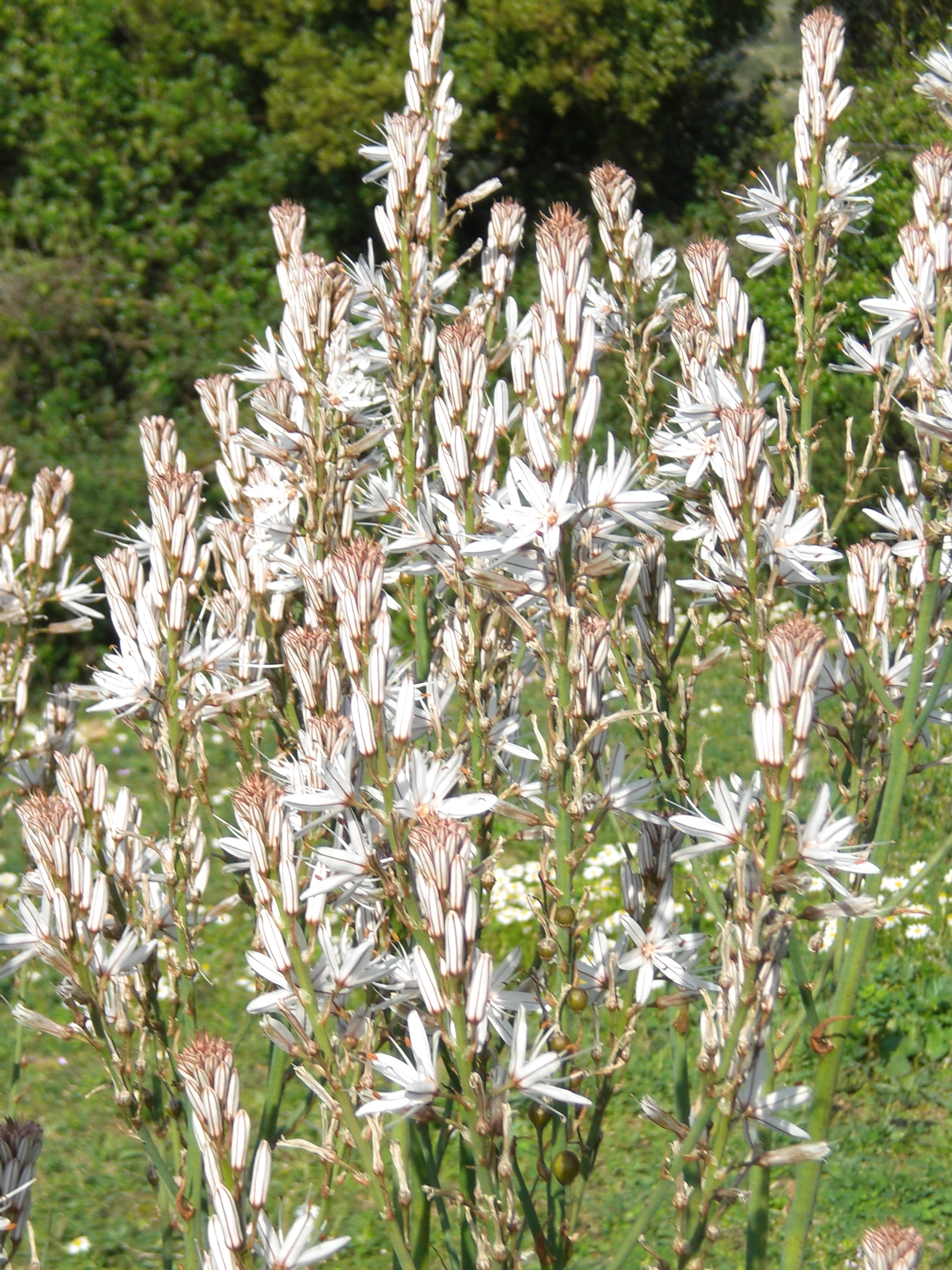 Gamones in flower at the end of April. The picture has been taken in Ubrique (Cadiz) Spain